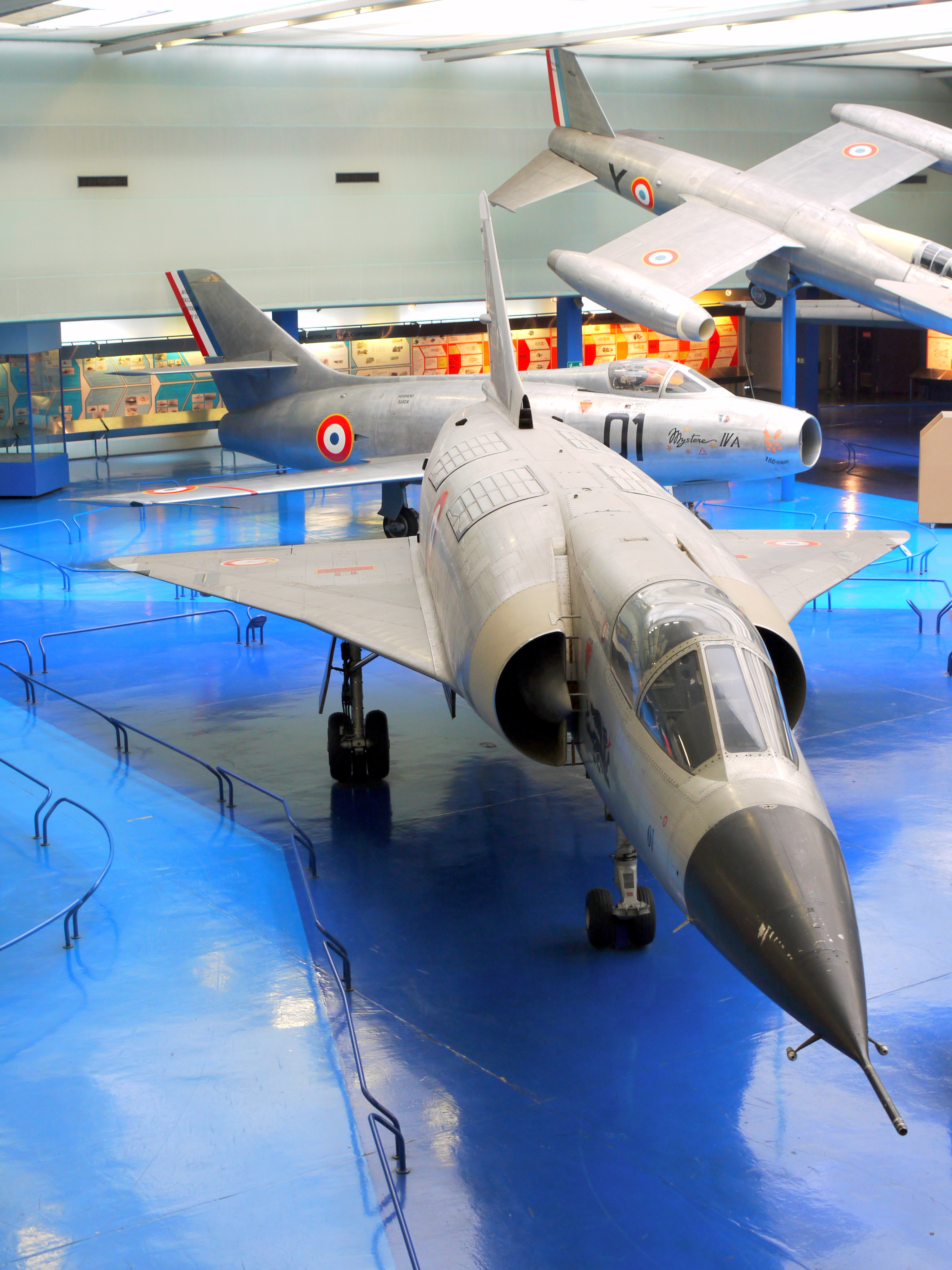 VTOL Fighter aircraft Mirage III V 01 prototype (1965), Museum of Air and Space Paris, Le Bourget (France)